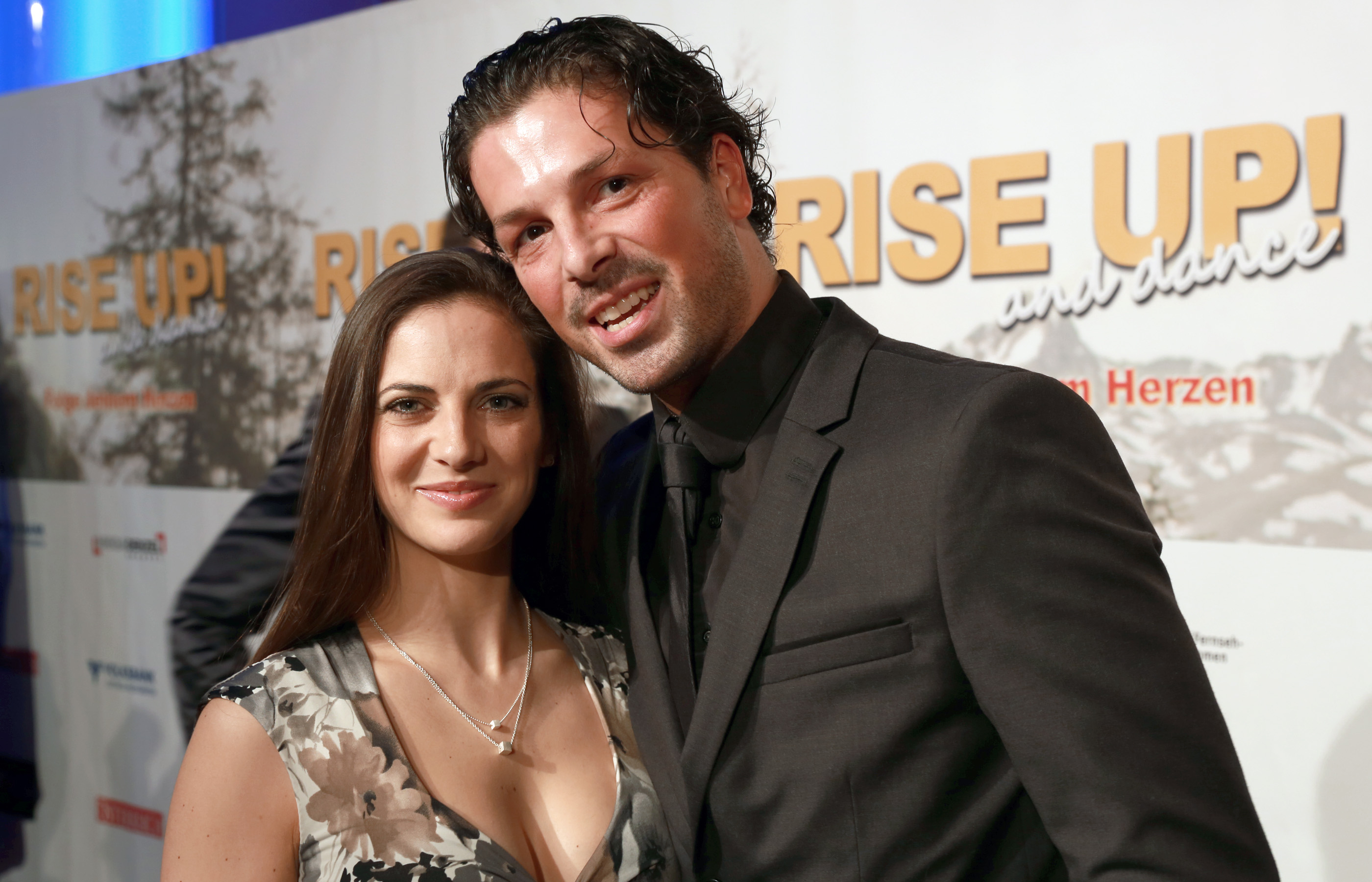 Bianca and Thomas Kraml at the premiere of Rise Up! And Dance at UCI Kinowelt Millennium City in Vienna.